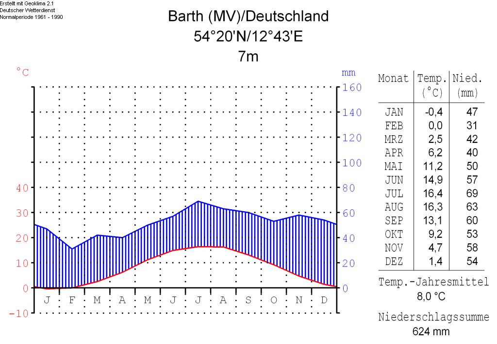 climate chart in the format by Walter and Lieth, metric, °Celsisus and millimeters, made with Geoklima 2.1